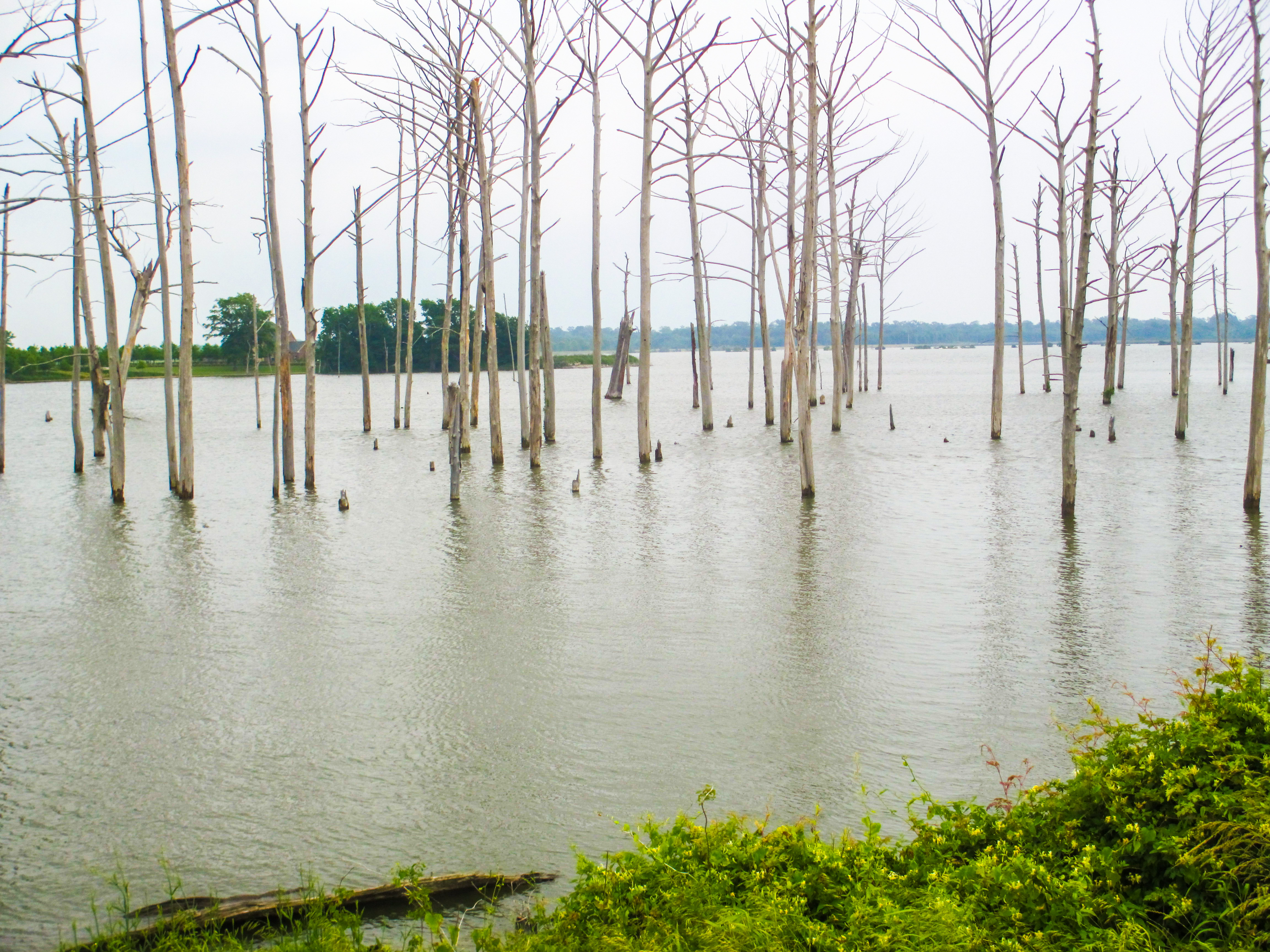 I took photo of Poverty Point Reservoir north of Delhi, LA, with Canon camera.